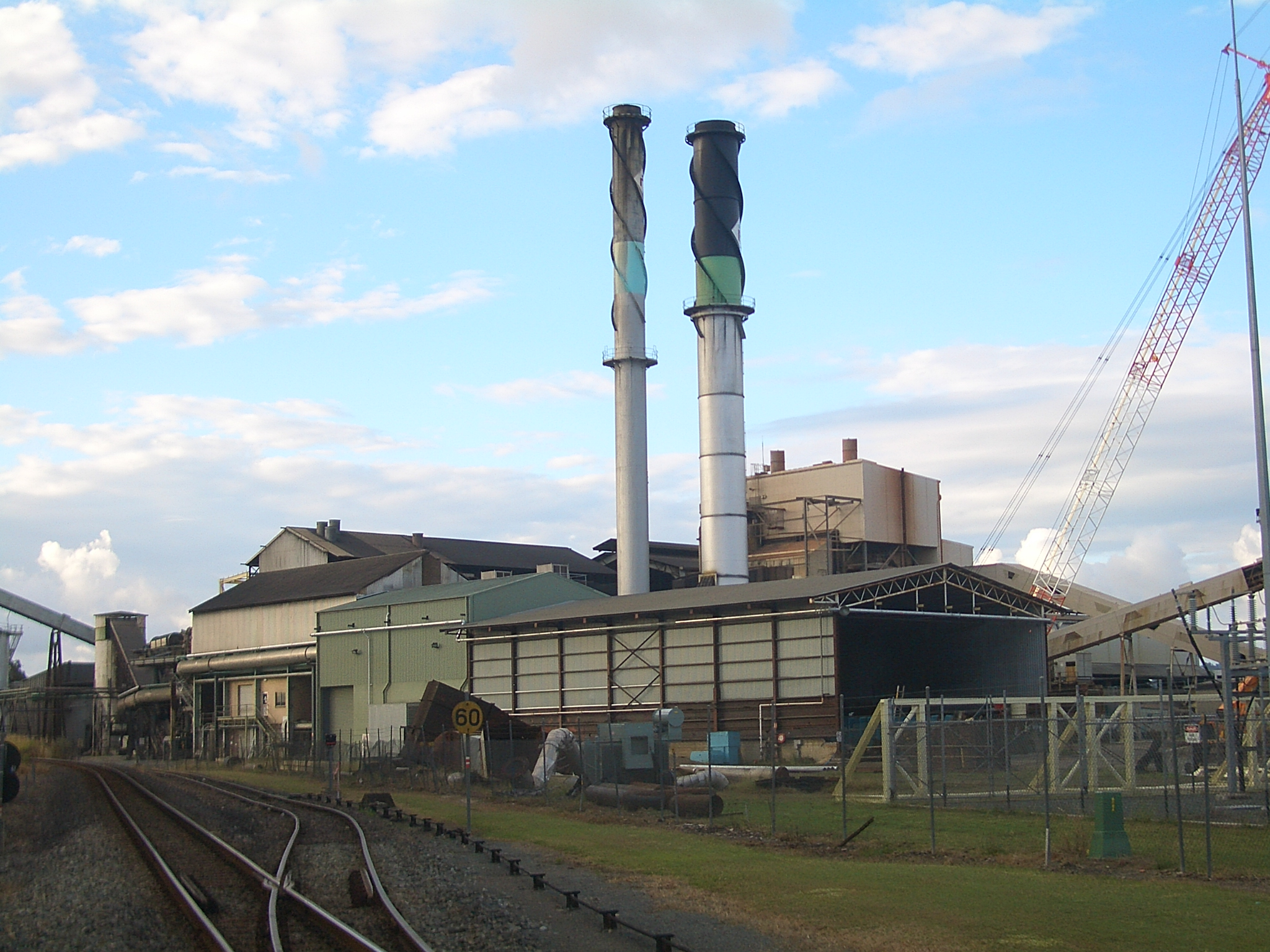 Sugar mill in Proserpine, Queensland.